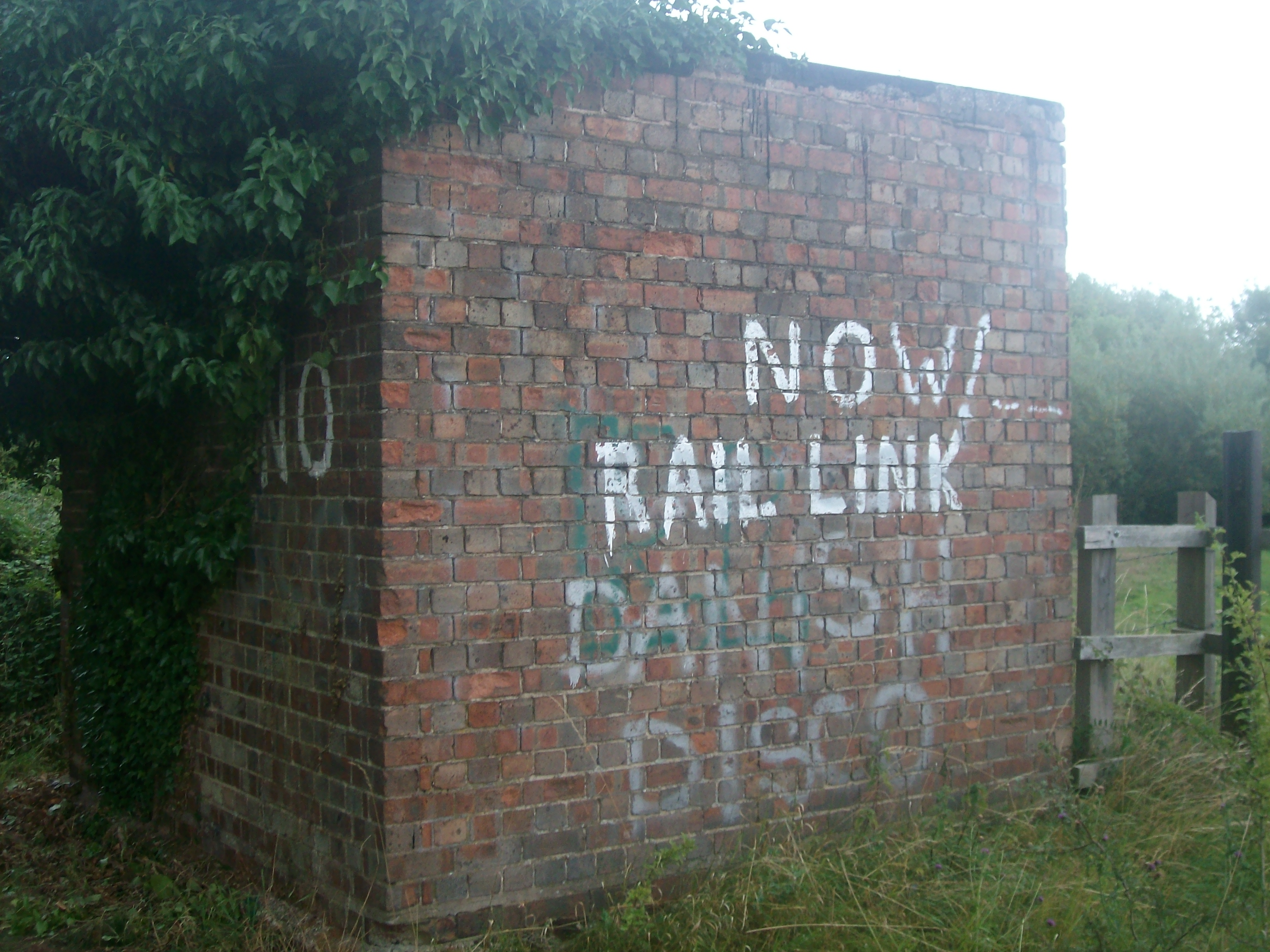 Old brick building at Willington railway station (Bedfordshire), a now defunct stop. The grafitti expresses a demand for a new line, as well as a reference to the nearby "Danish camp".